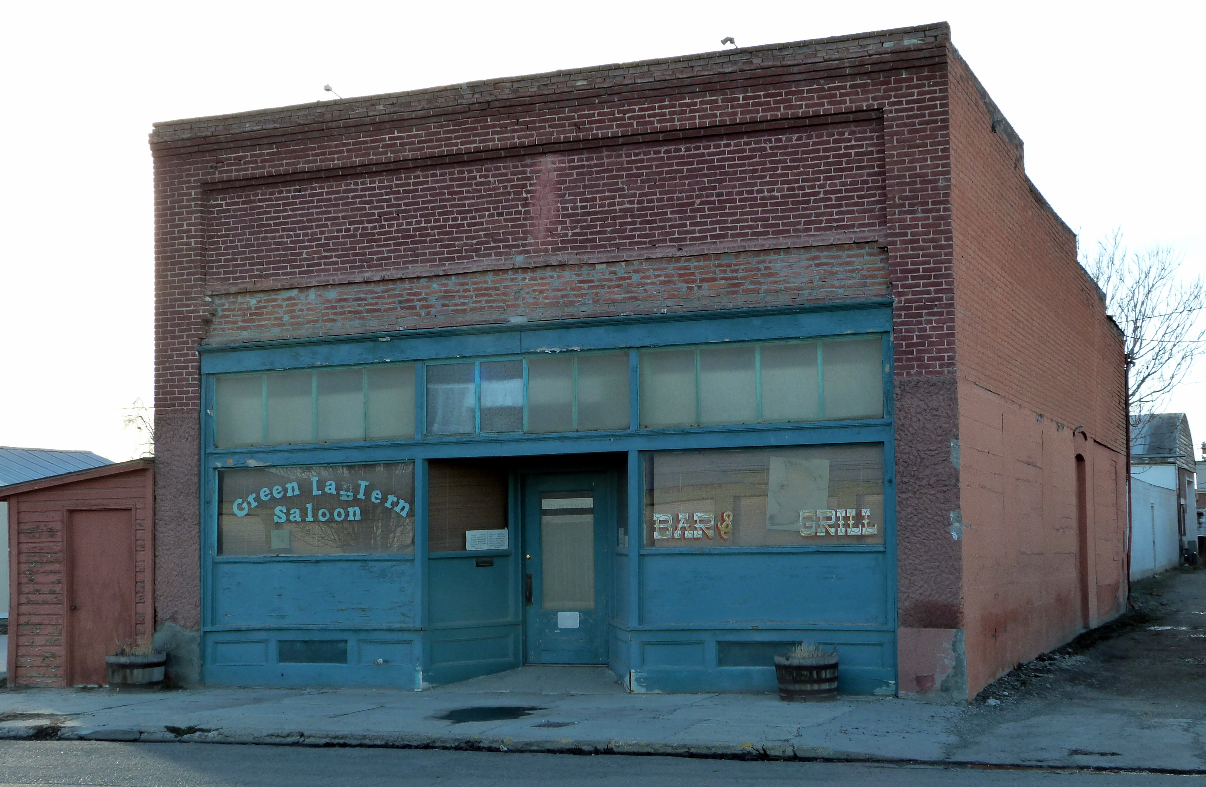 The historic Green Lantern Saloon (built 1906), located at 11 South 1st Street in Nyssa, Oregon, United States, is listed on the US National Register of Historic Places.